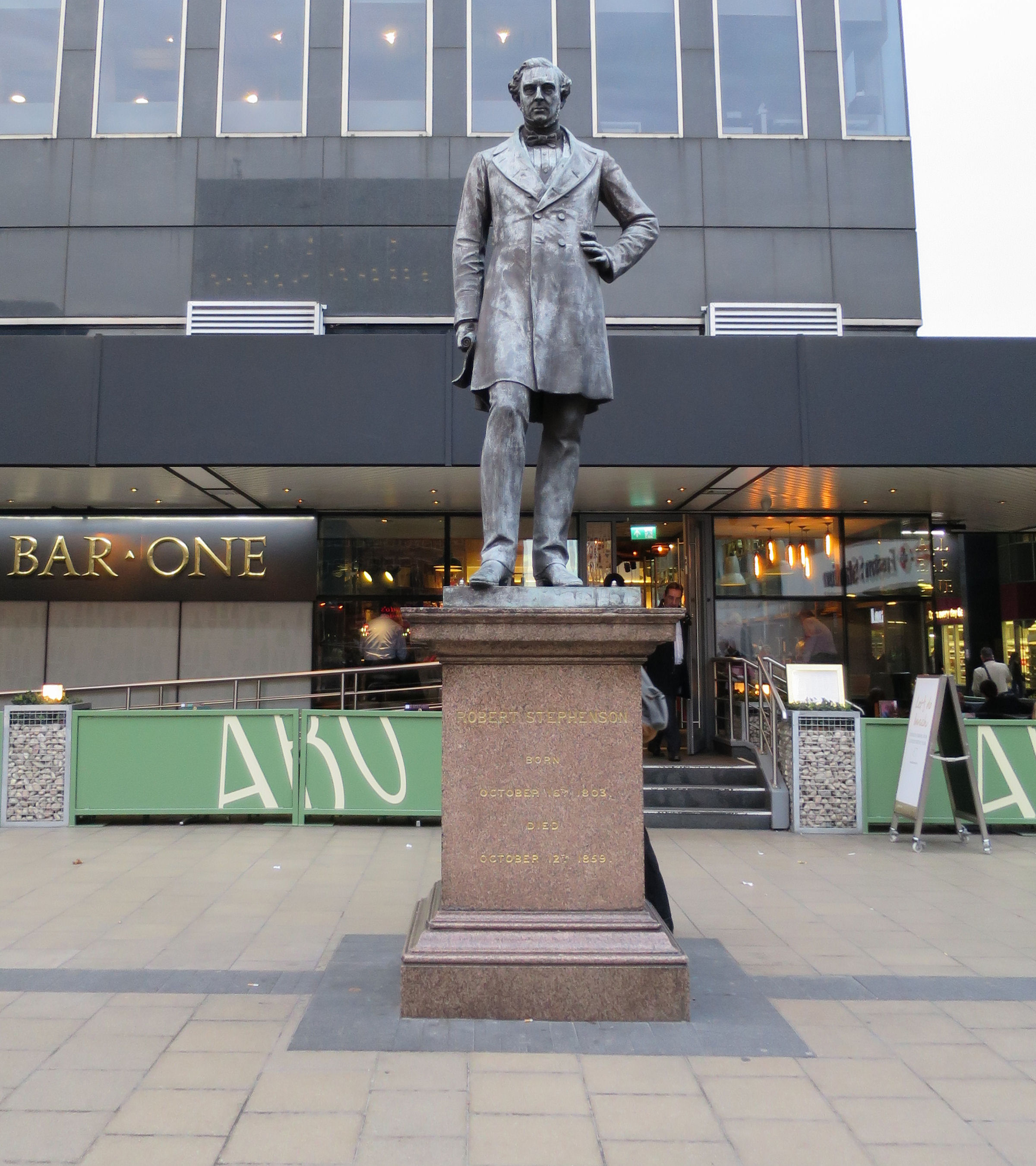 A statue of the railway engineer, Robert Stephenson stands in the forecourt of Euston Station, Euston Road, London NW1. It was previously in the ticket hall of the original station, demolished in the 1960s. The inscription reads: "Robert Stephenson born October 16th 1803 died October 12 1859". ___________________________________ § Wikipedia page about Robert Stephenson . § Sculpture by Carlo (Charles) Marochetti .